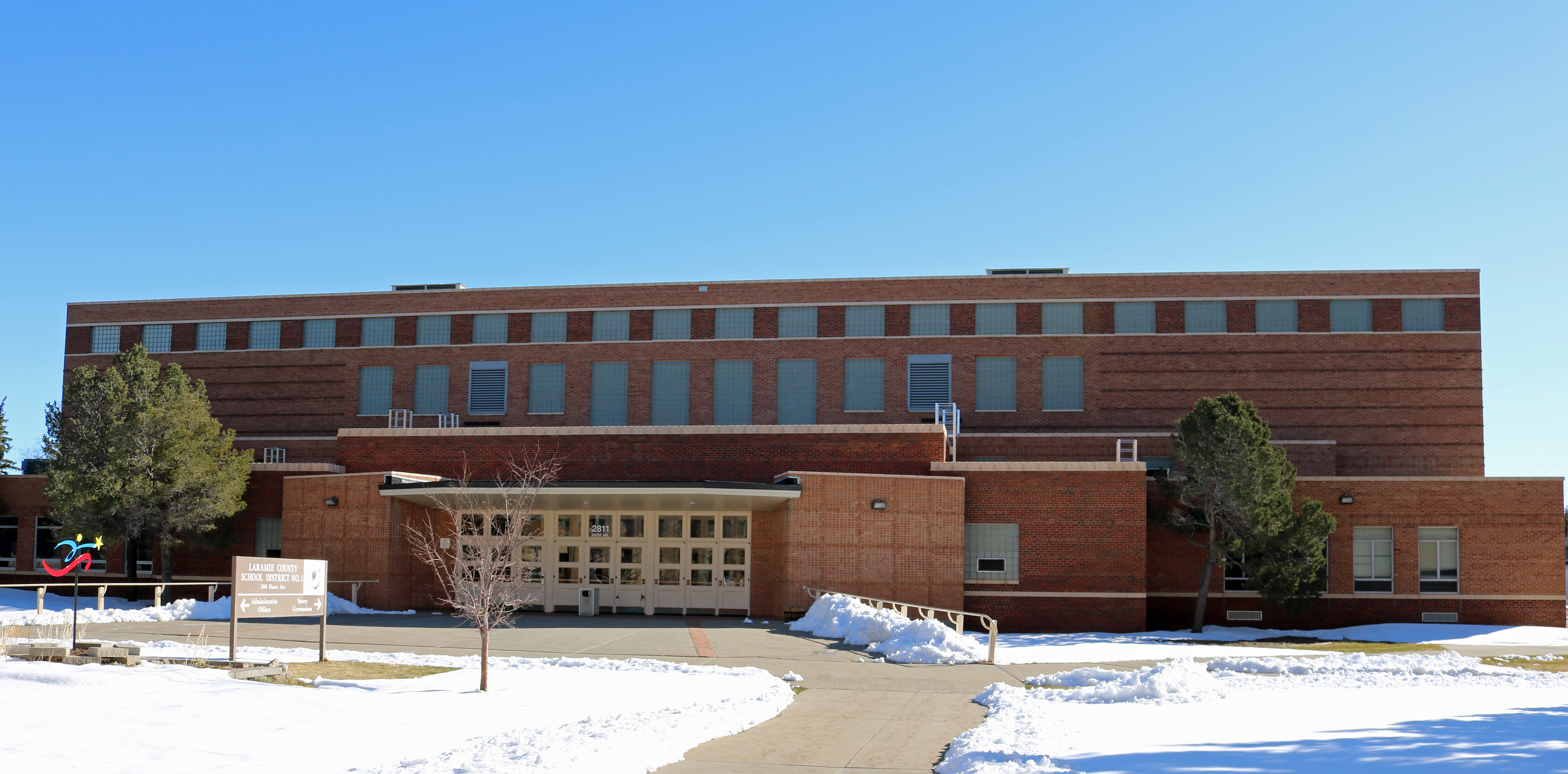 Storey Gymnasium, located at 2811 House Avenue in Cheyenne, Wyoming. The property is listed on the National Register of Historic Places.